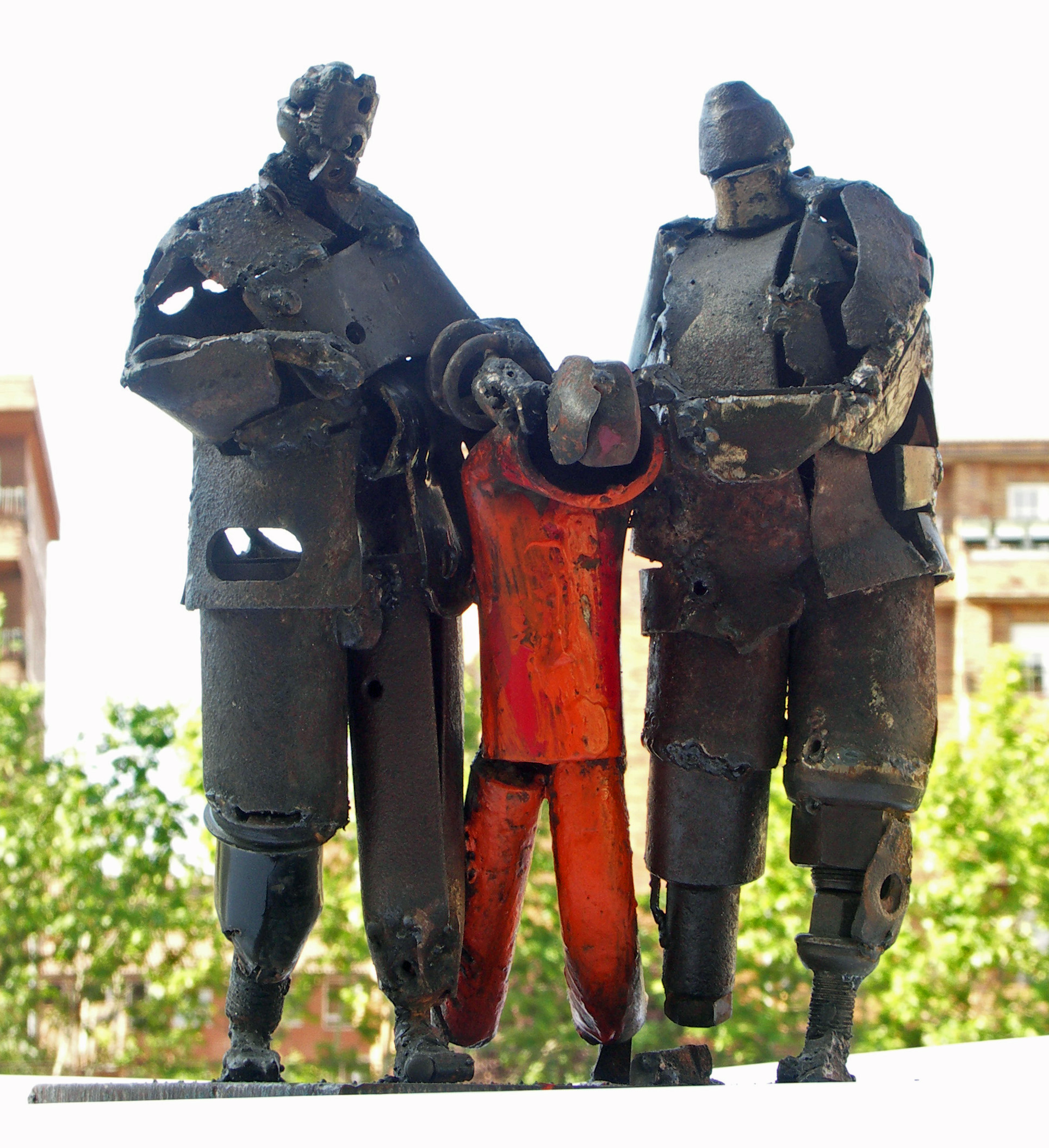 Guantanamo - a sculpture of José Antonio Elvira in Guantánamo, a city in southeast Cuba.